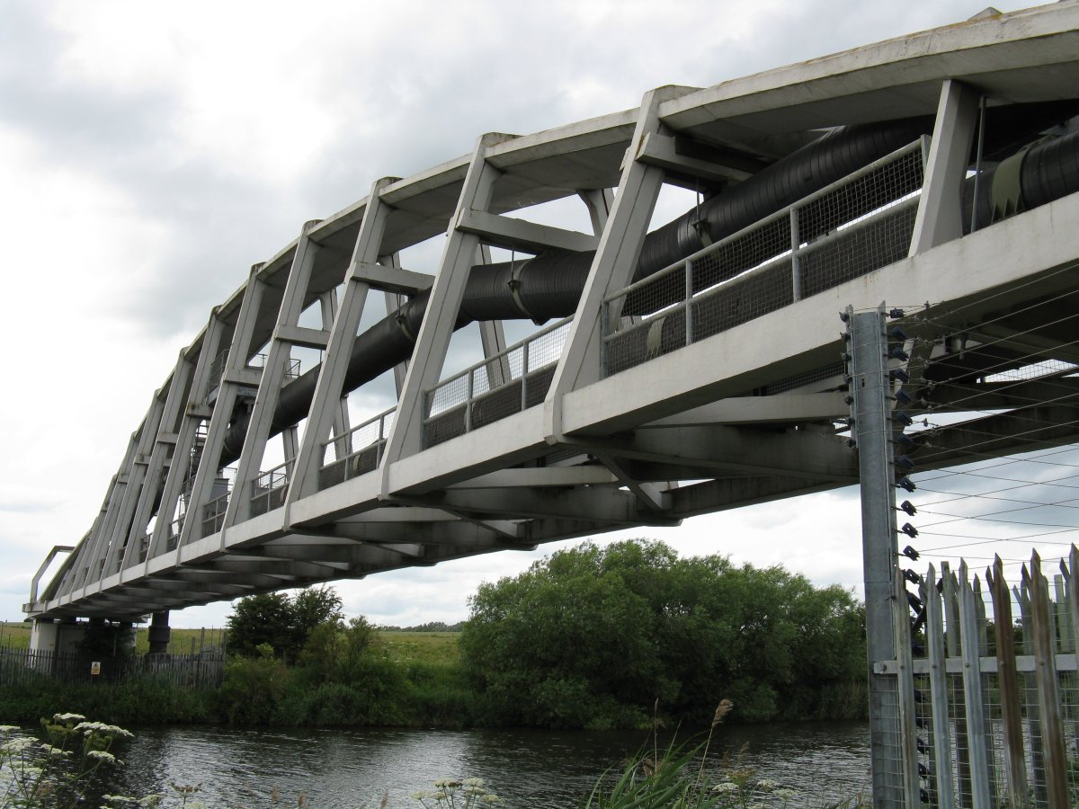 Preston Pipe Bridge over the river Tees in Stockton-on-Tees just upriver from Jubilee Bridge.